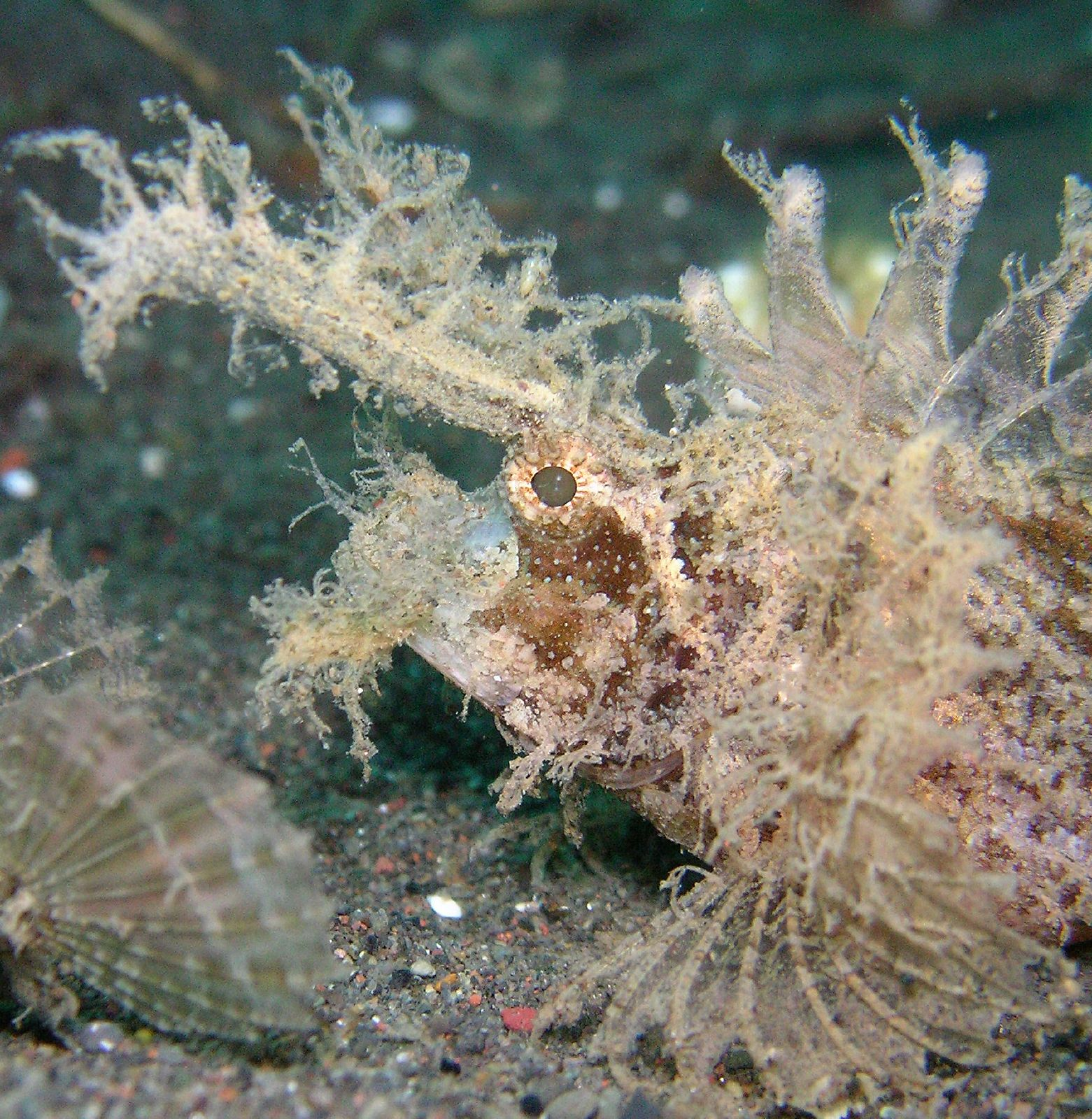 Ambon scorpionfish (Pteroidichthys amboinensis)